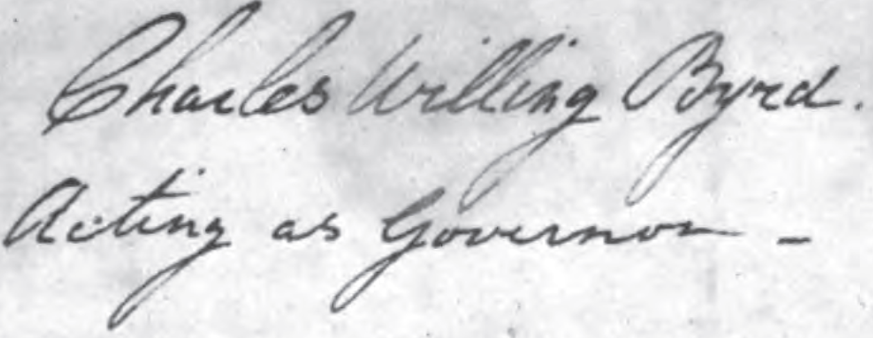 Signature on a marriage certificate issued January 24, 1803 by acting Governor of the Northwest Territory Charles Willing Byrd